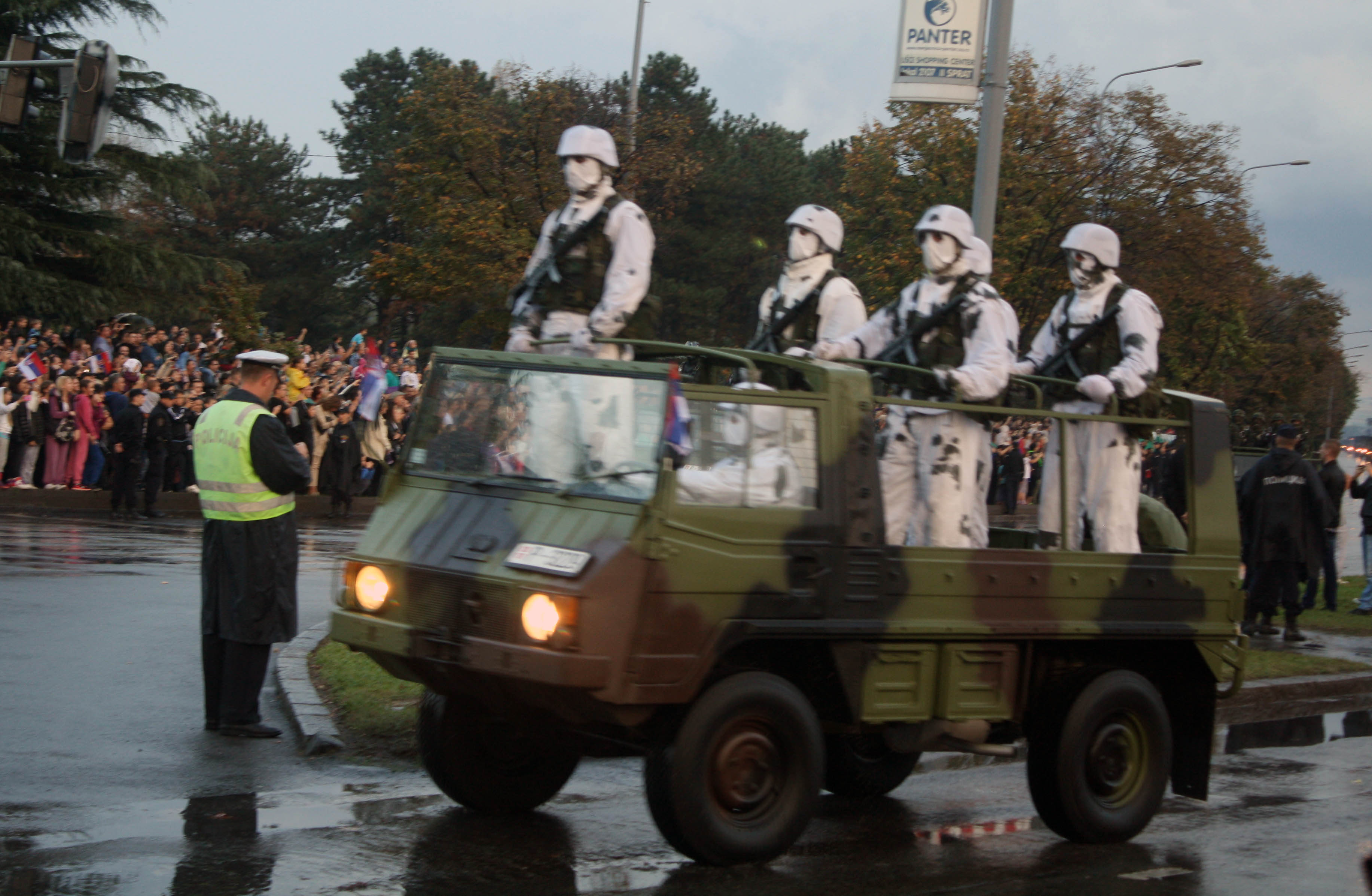 Serbian Army Special Forces Pinzgauer during the military parade "March of the Victorious" on the occasion of marking 100 years since the beginning of the Great War and 70 years since the liberation of the capital in the Second World War.